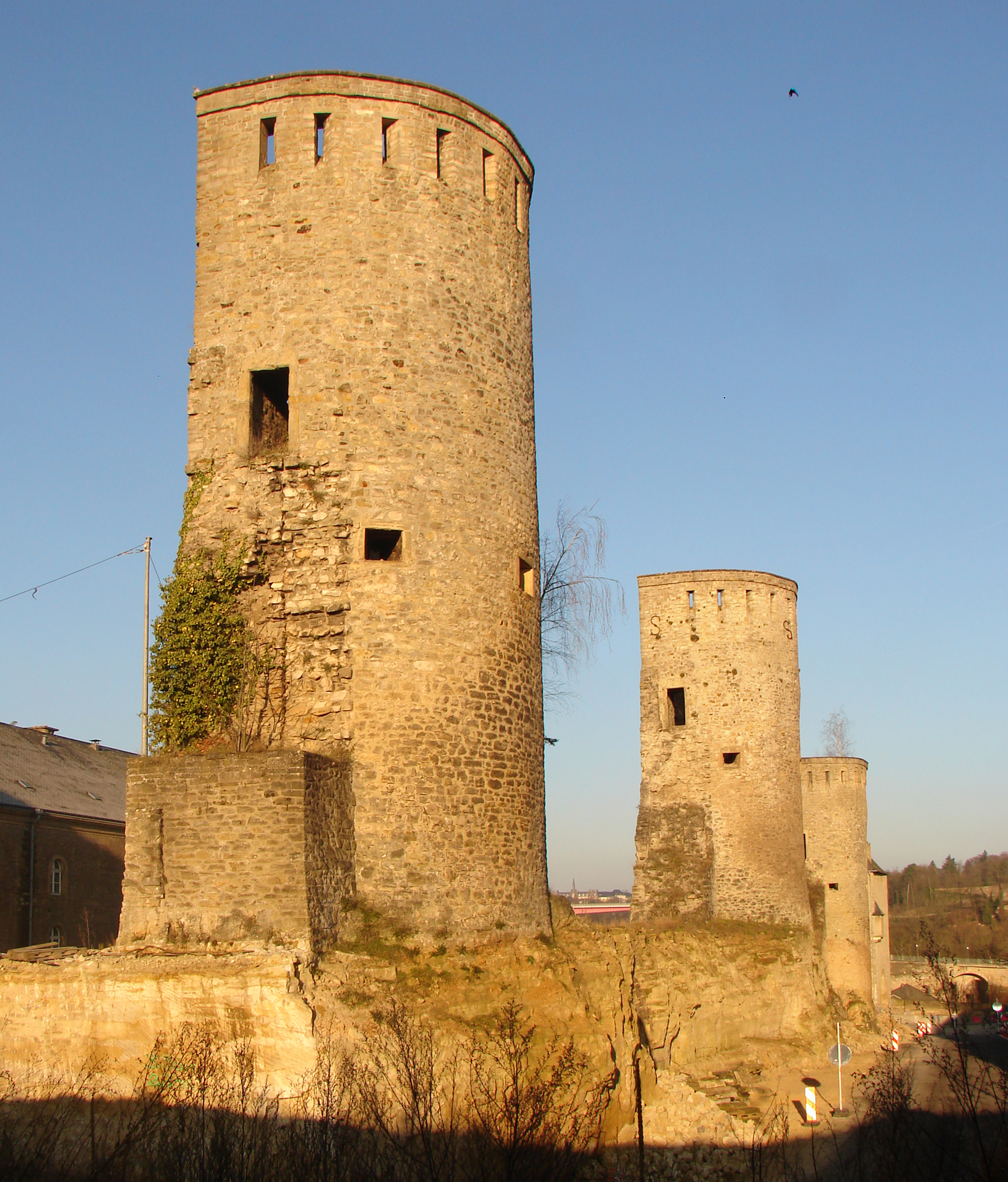 The fortifications of Luxelbourg City; the towers of Rham.